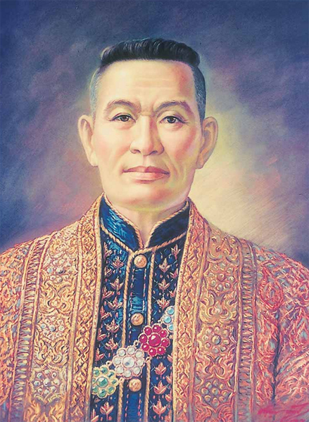 Anurak Devesh, Deputy Vice King of Siam. Tenure circa 1782 – 20 December 1806